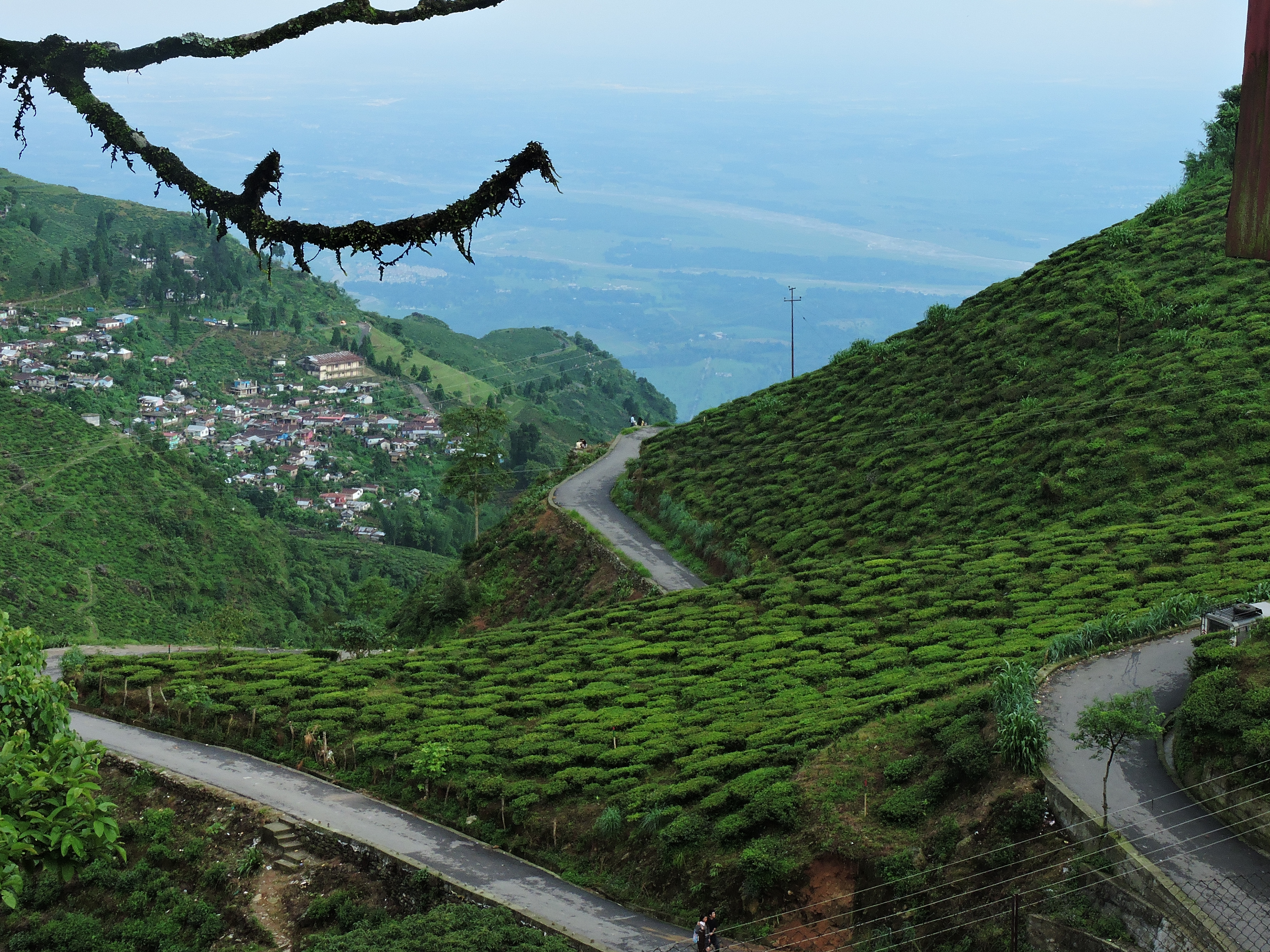 tea estate from Kurseong